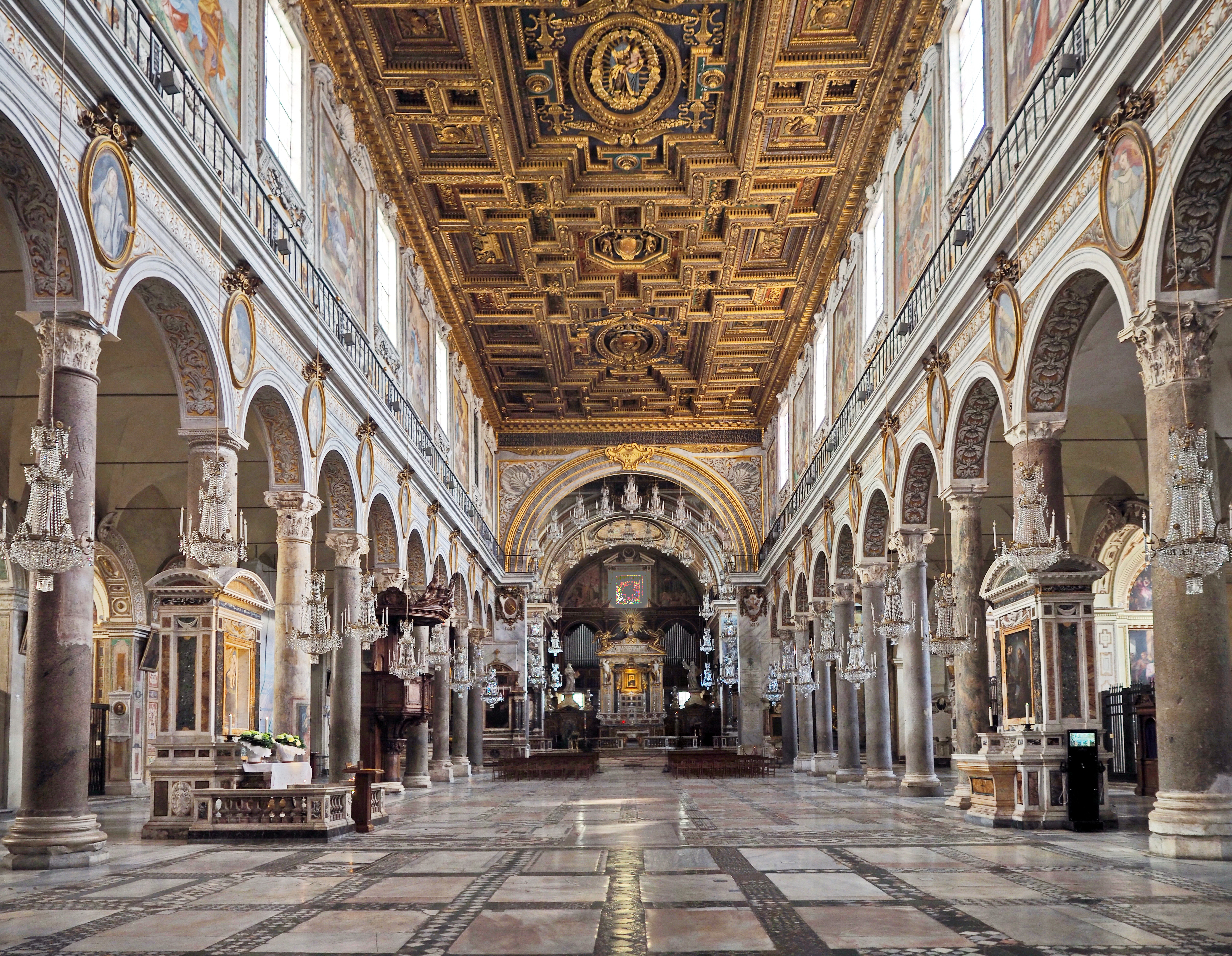 Santa Maria in Aracoeli (Rome); Nave